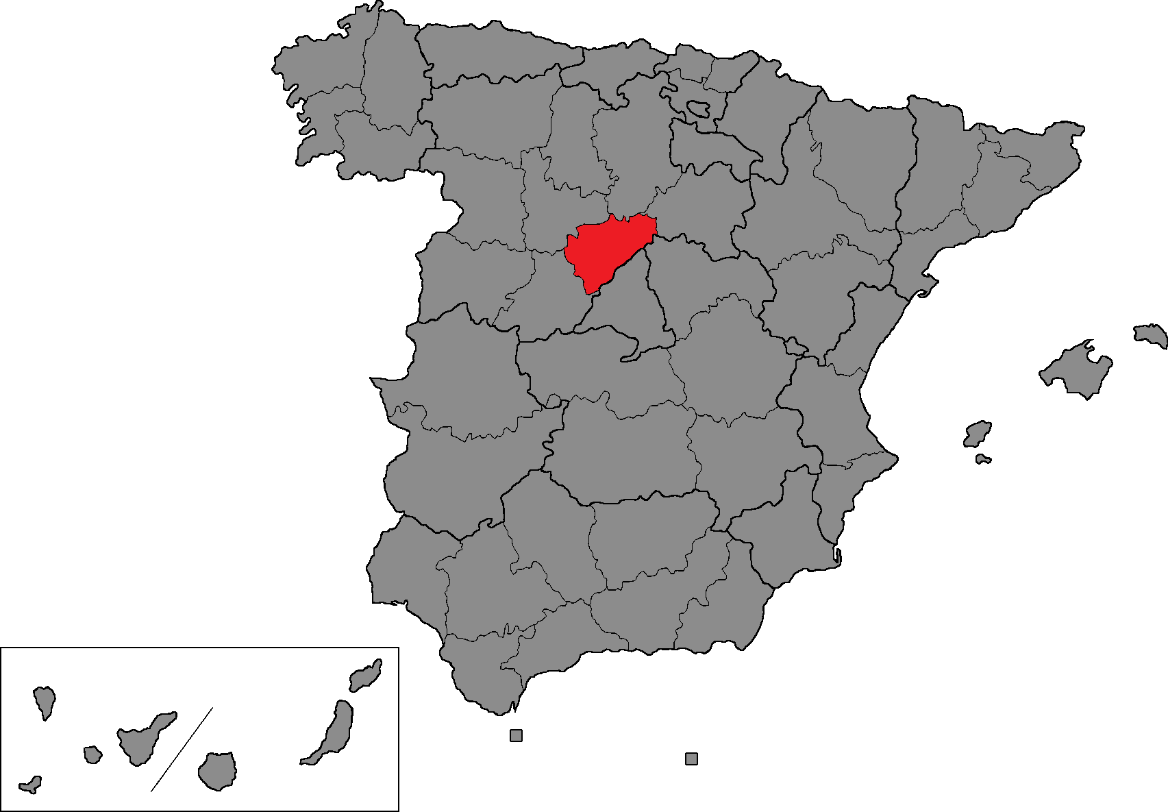 Spanish Congress of Deputies district of Segovia.